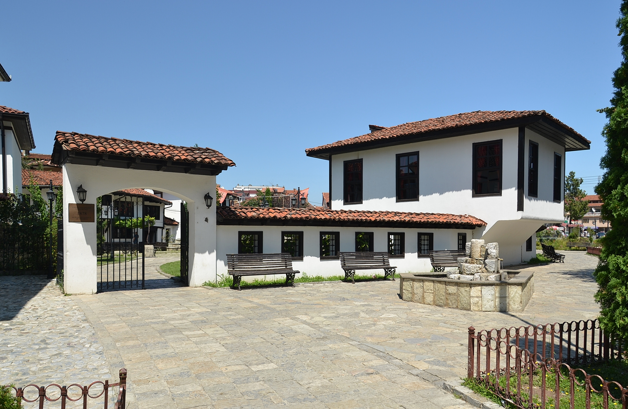 League of Prizren building in Prizren, Kosovo